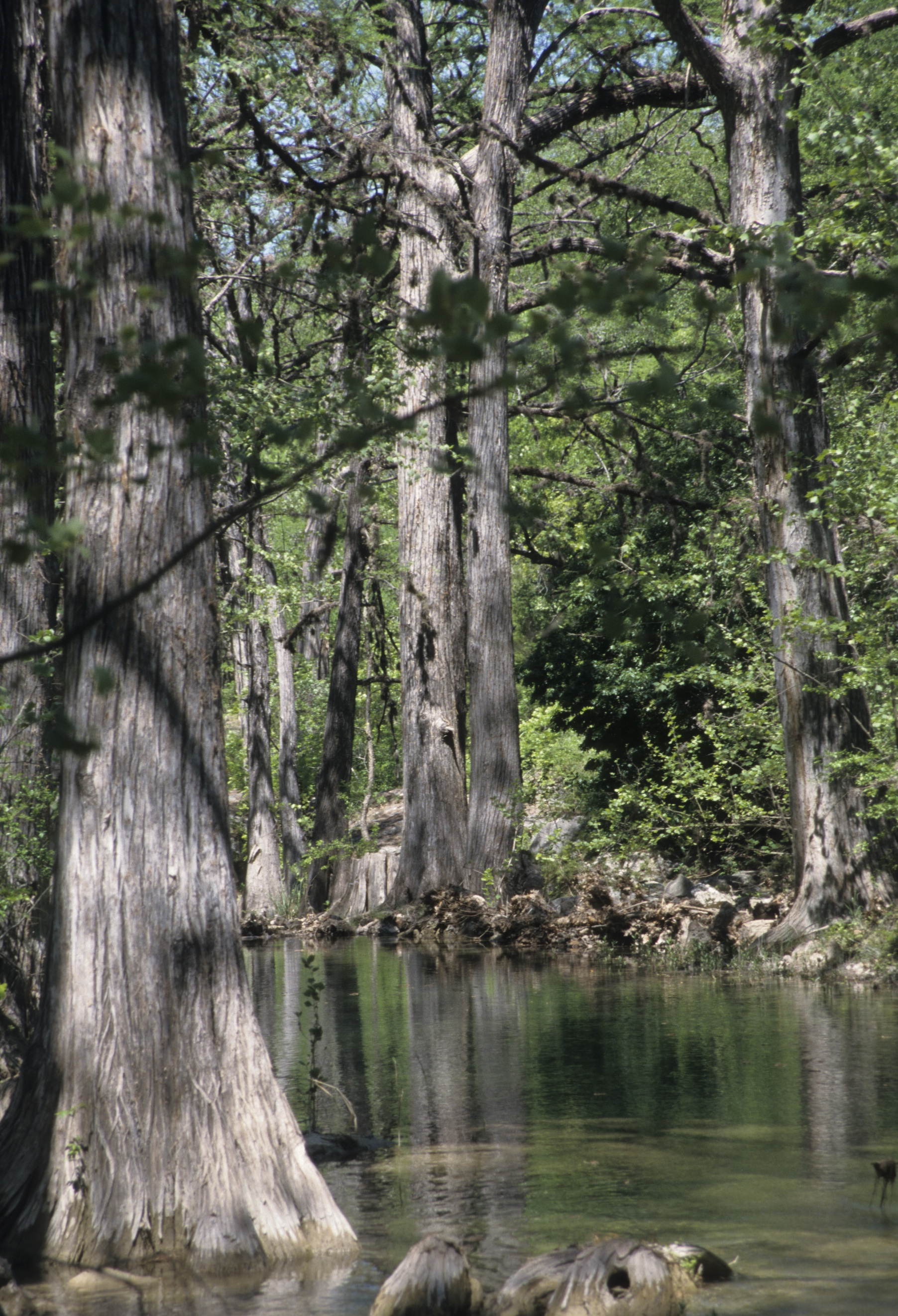 Common Name: Bald Cypress Found growing along Hamilton Creek, Hamilton Pool Preserve, ~30 miles southwest of Austin, Texas